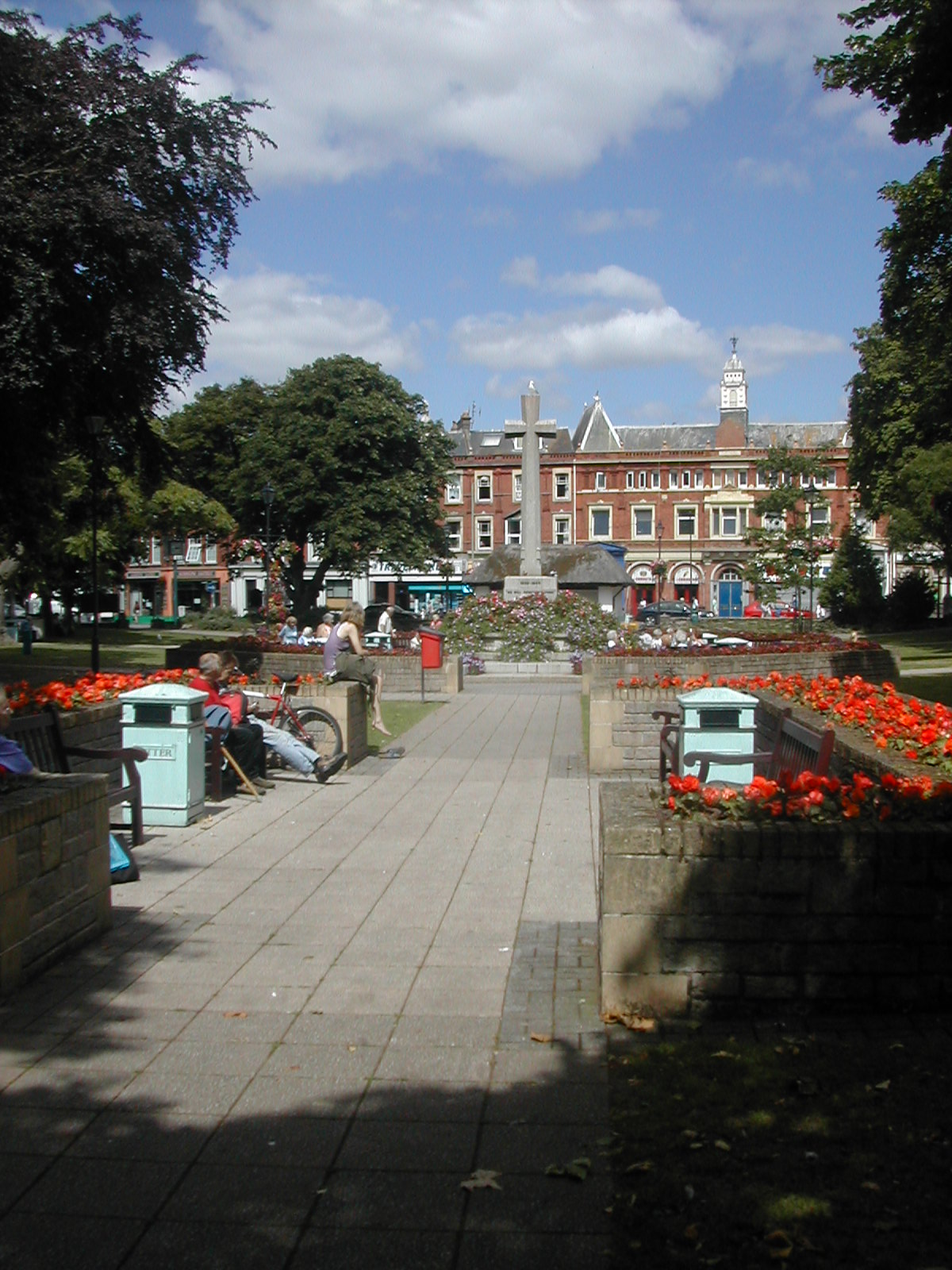 The town center